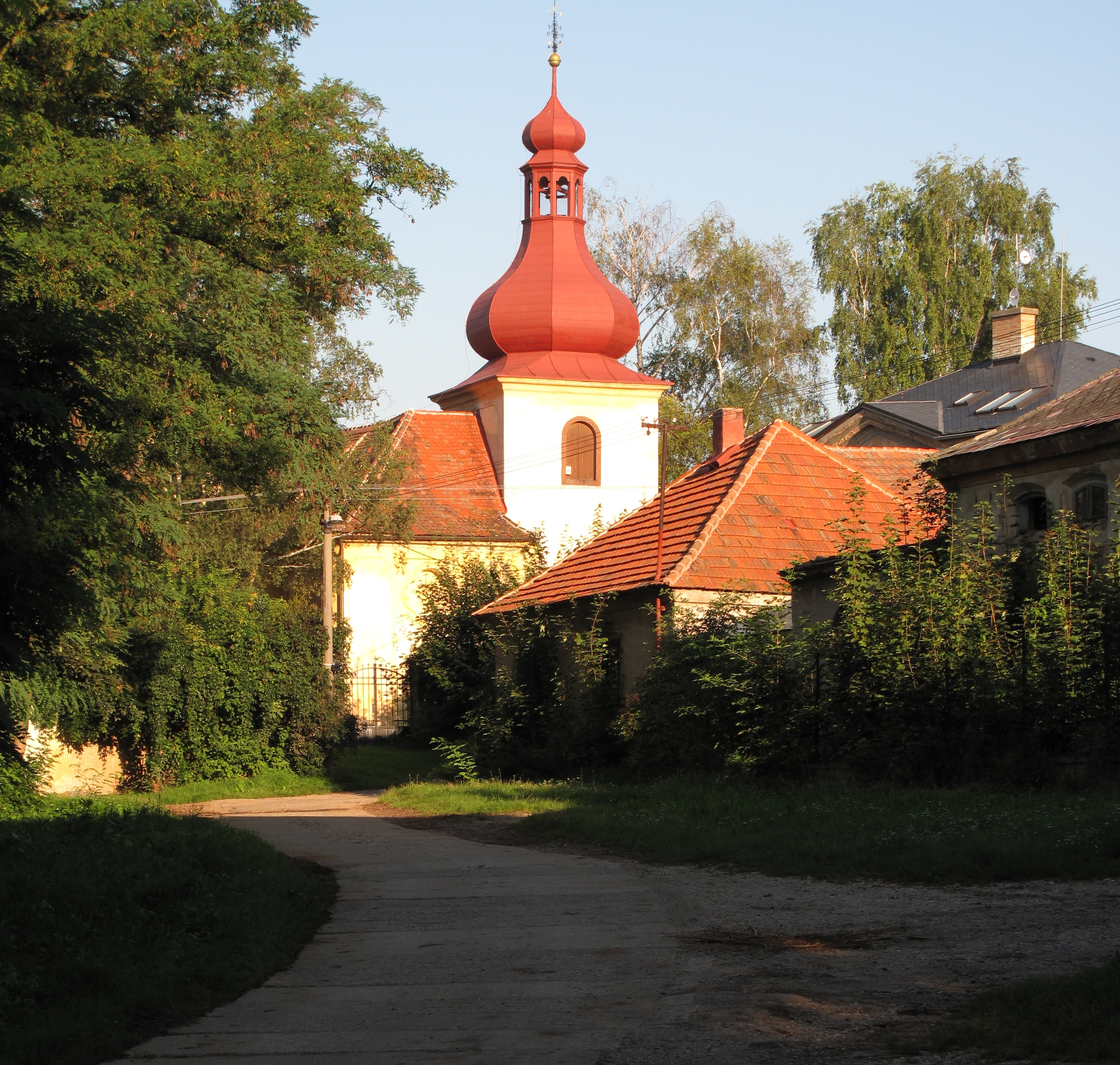 Church of the Assumption of Our Lady in Lstiboř village, Kolín District, Czech Republic.